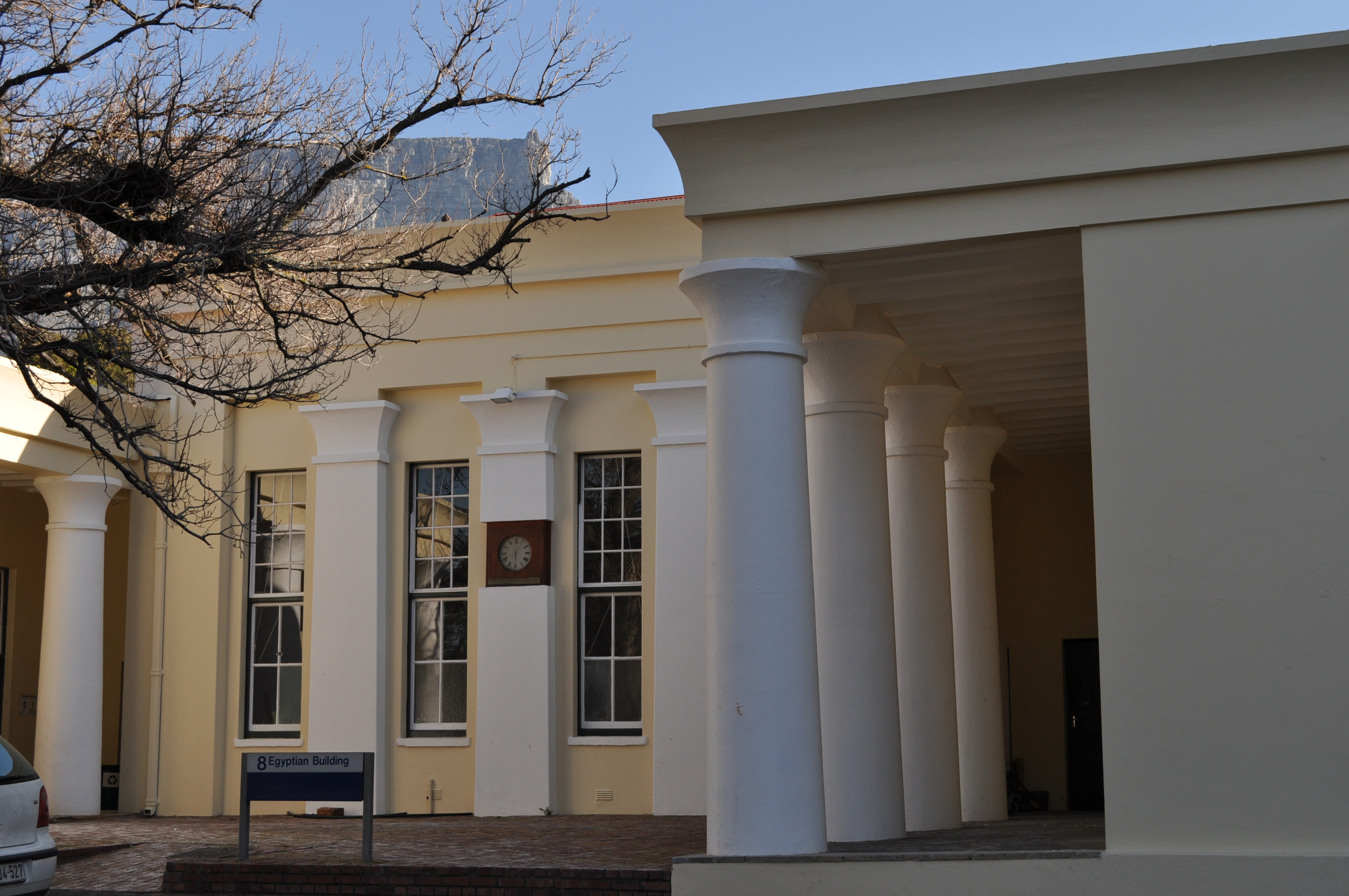 This media shows a South African Protected Site with SAHRA file reference 9/2/018/0179/1.